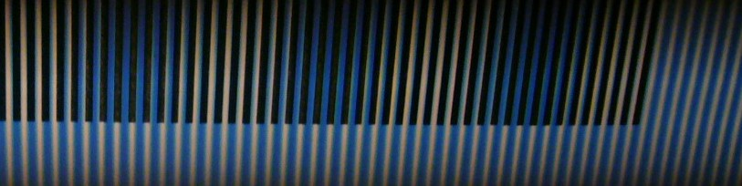 Near-field interference pattern generated by Talbot-Effect using a halogen lamp (slide projector), a "G0" grating (comb) with 2mm period, a "G1" grating (comb) with 1mm period, and a "G2" printed bar pattern with 1.8mm period. Distances: slide projector (lamp) - 10cm - G0 - 3m - G1 - 3m - paper "G2". Design wavelength is 666nm (red) which is bad for contrast but good for colors.